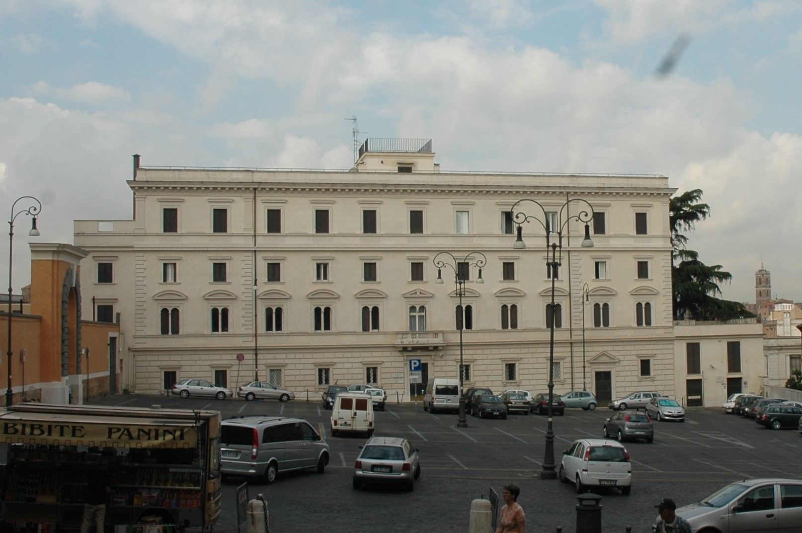 Convento di Sant'Antonio Abate (Rome)